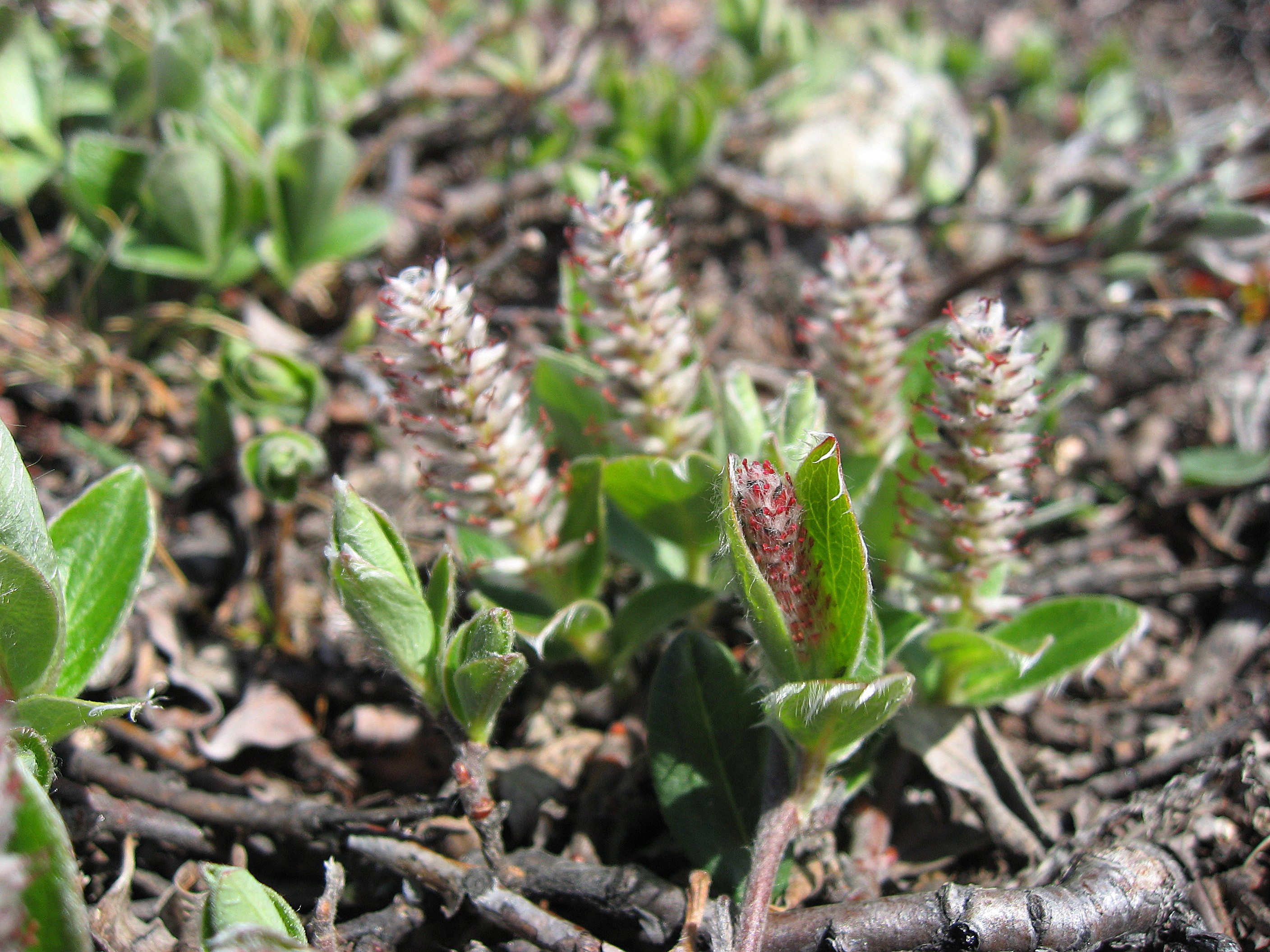 Arctic Willow Salix arctica photographed near Upernavik, Greenland. Identified by George W. Argus, Researcher Emiritus, Research Associate, Canadian Museum of Nature with the remark that definitive identification is not possible from the photo alone.